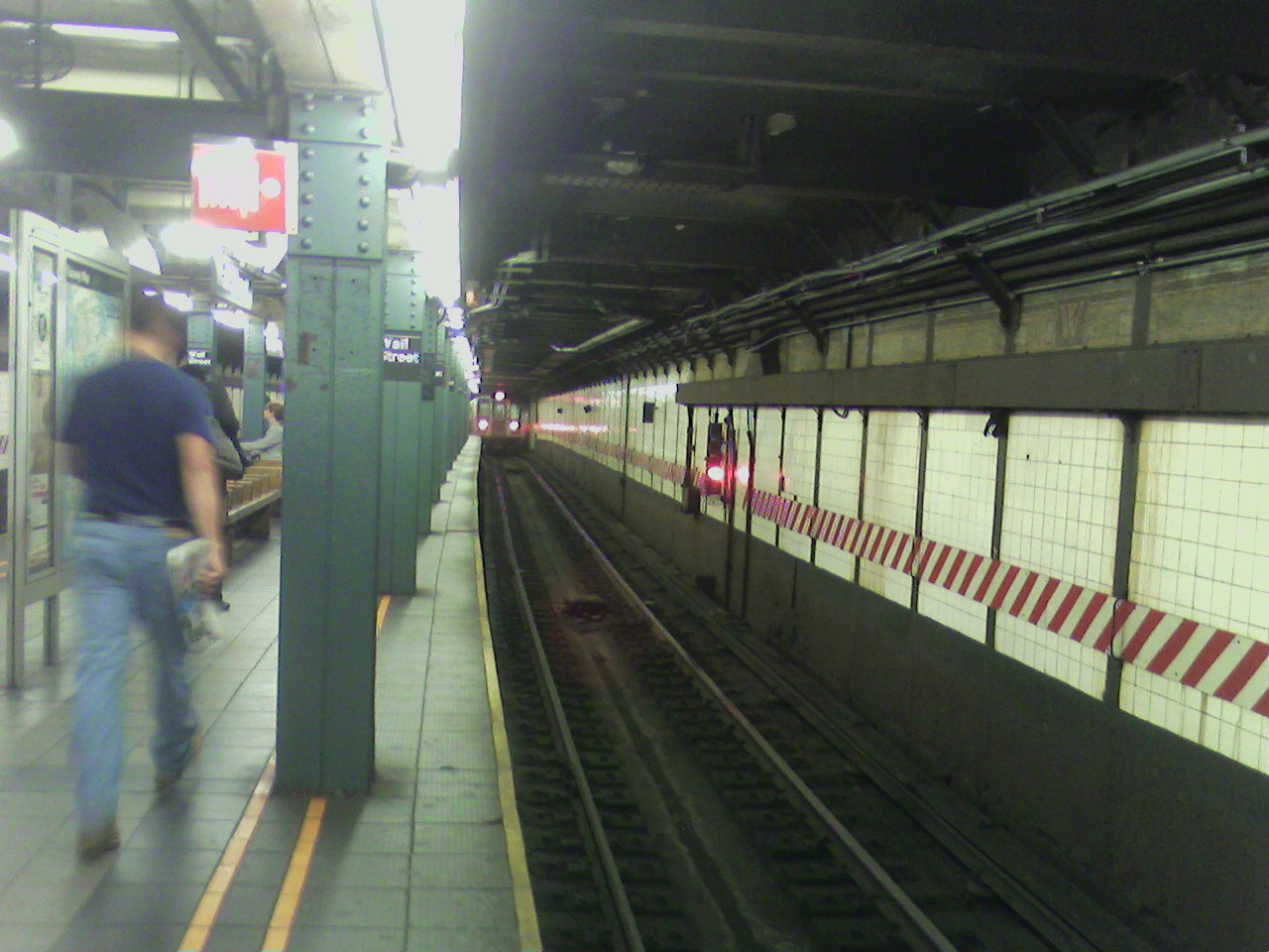 The Wall Street-William Street subway station.